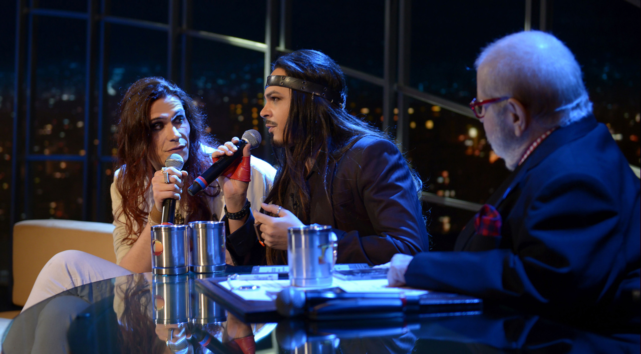 MadHouse in Programa do Jô